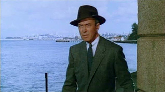 Screenshot from the original 1958 theatrical trailer for the film VertigoFrame taken from MPEG4. Note: This version of the original 1958 theatrical trailer is of significantly lower quality than the 1996 restoration theatrical trailer.